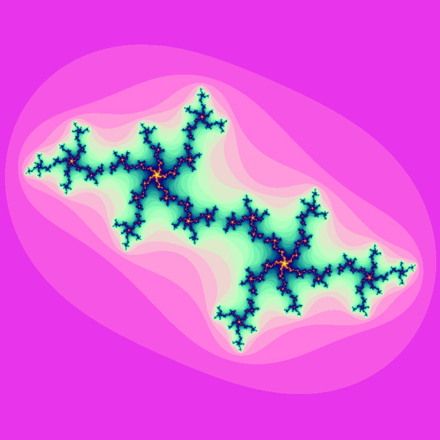 Example of a julia set from coordinate (phi-2, phi-1), a fractal, (free to use for anyone)